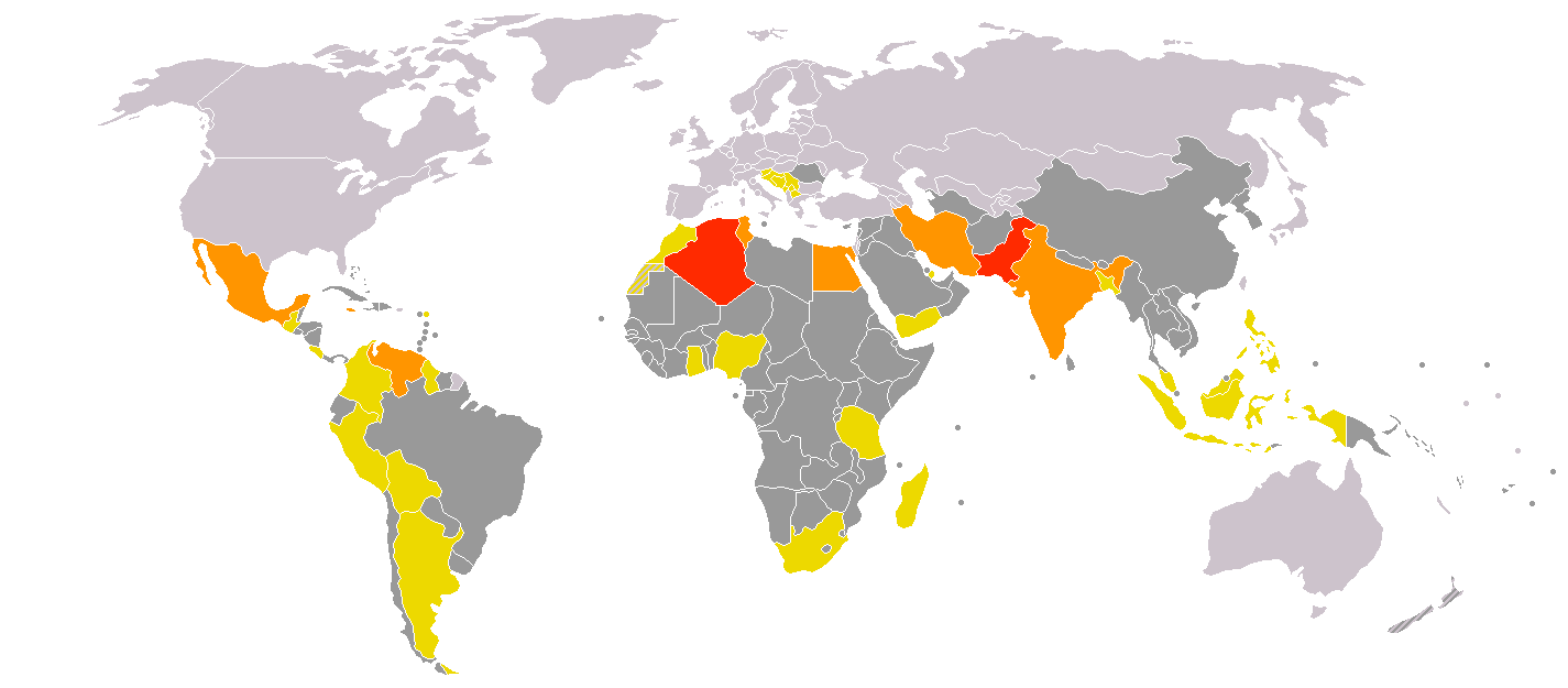 Presiding countries of the G-77 since 1970. Colors show the number of times a country has held the position. Yellow = once; orange = twice; red = thrice. Countries in grey have yet to hold the position.